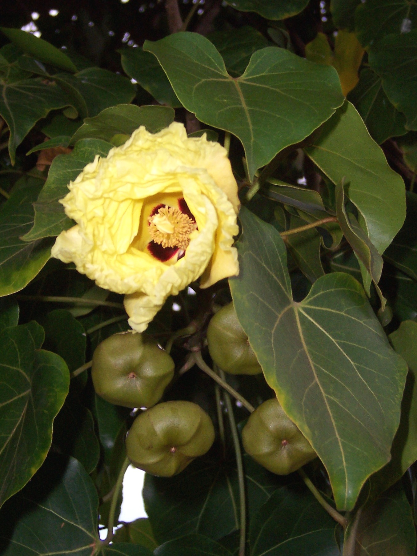 Thespesia populnea : flower and ripening fruits (photo taken onRéunion island)